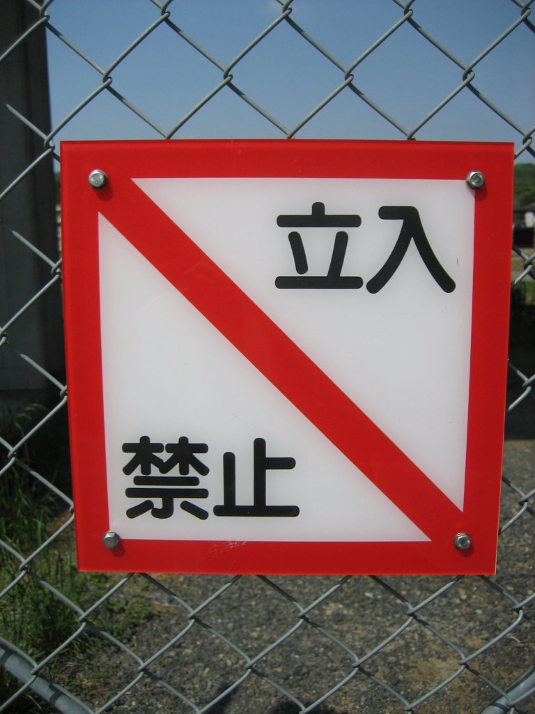 No Trespassing sign in Japan. (Text: Tachiiri kinshi)